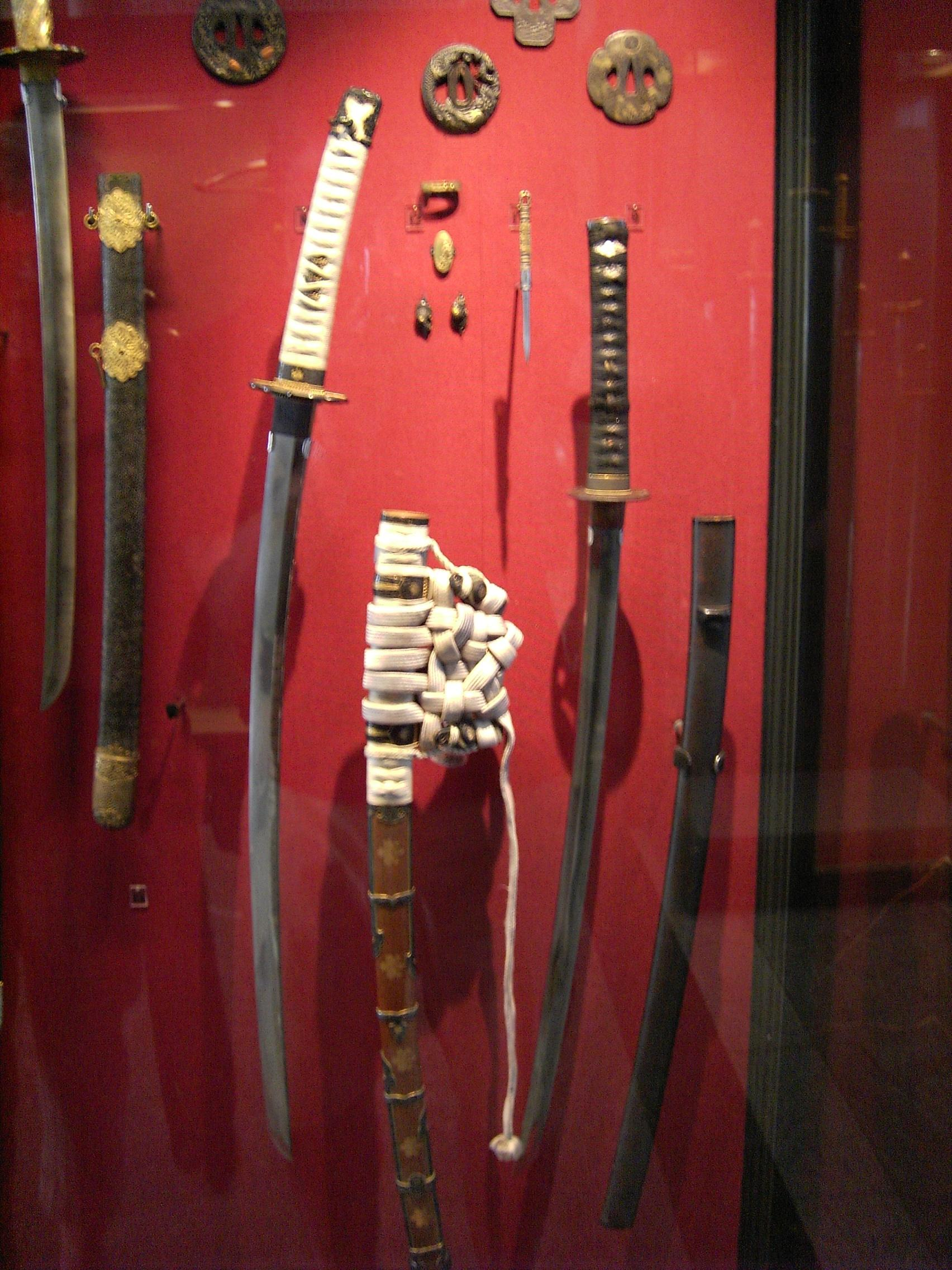 Dresdner Zwinger, 16th or 17th century armour and weapons. Samurai swords: The sabre with the white handle is a tachi, and the one with the dark one is a katana